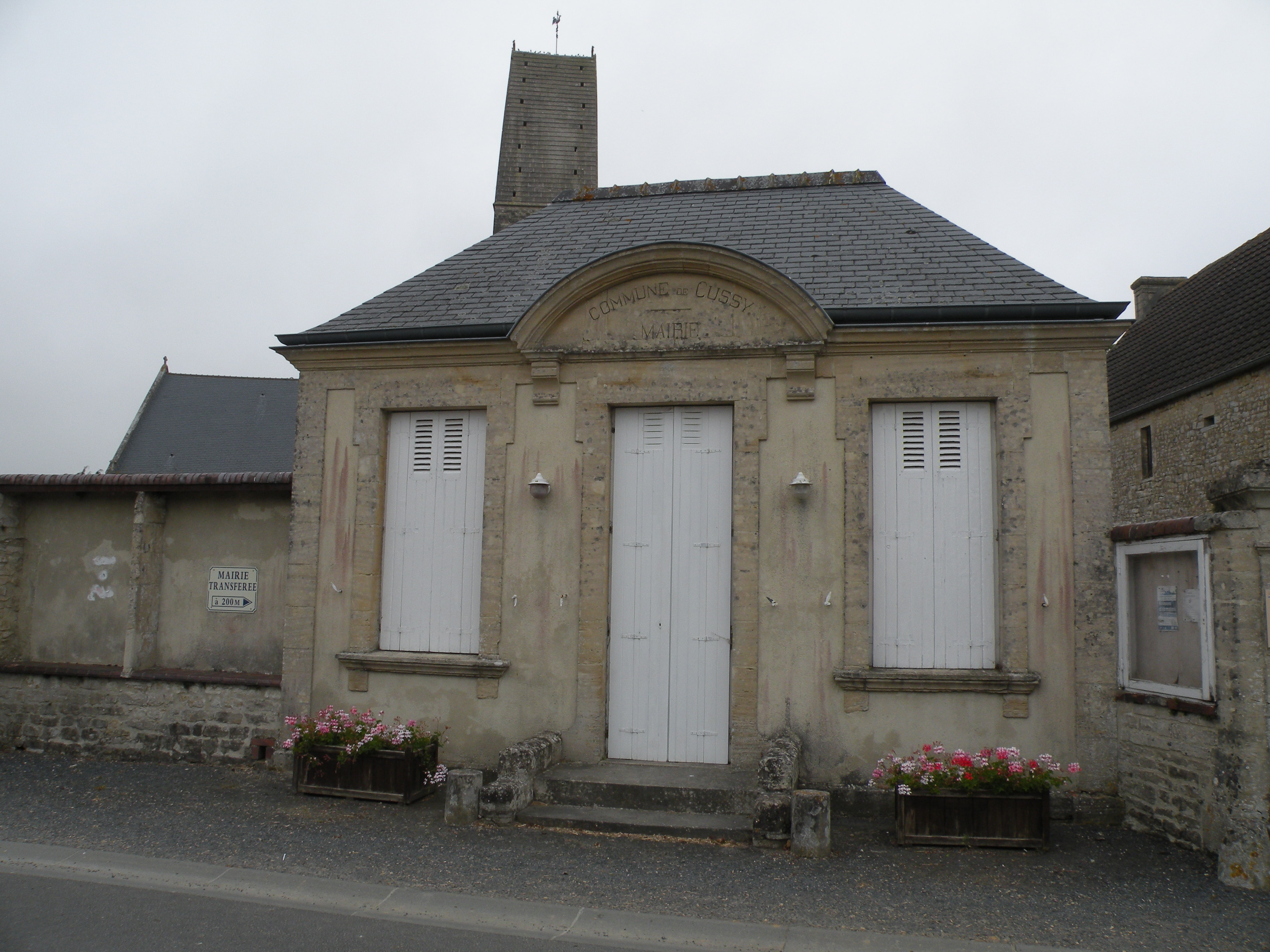 Cussy